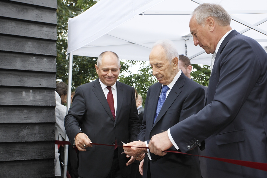 Žanis Lipke memorial was ceremonially opened in 2012. President of Latvia Andris Bērziņš (in the right), President of Israel Shimon Peres (in the middle), former Prime Minister of Latvia, entrepreneur, author of the idea of the memorial, Māris Gailis (in the left).